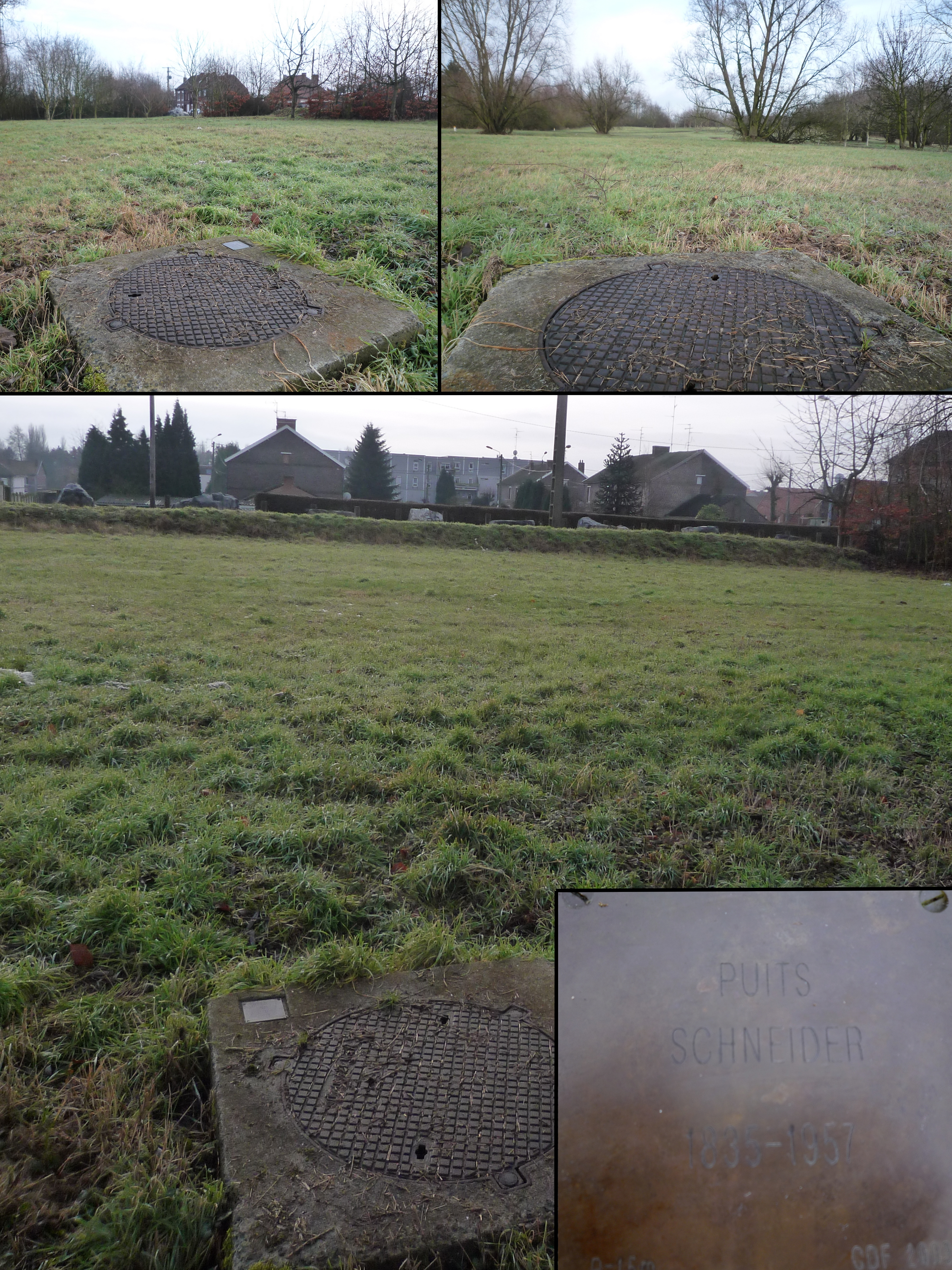 Pit Schneider, Compagnie des mines de Douchy, Lourches, Nord, Nord-Pas-de-Calais, France.